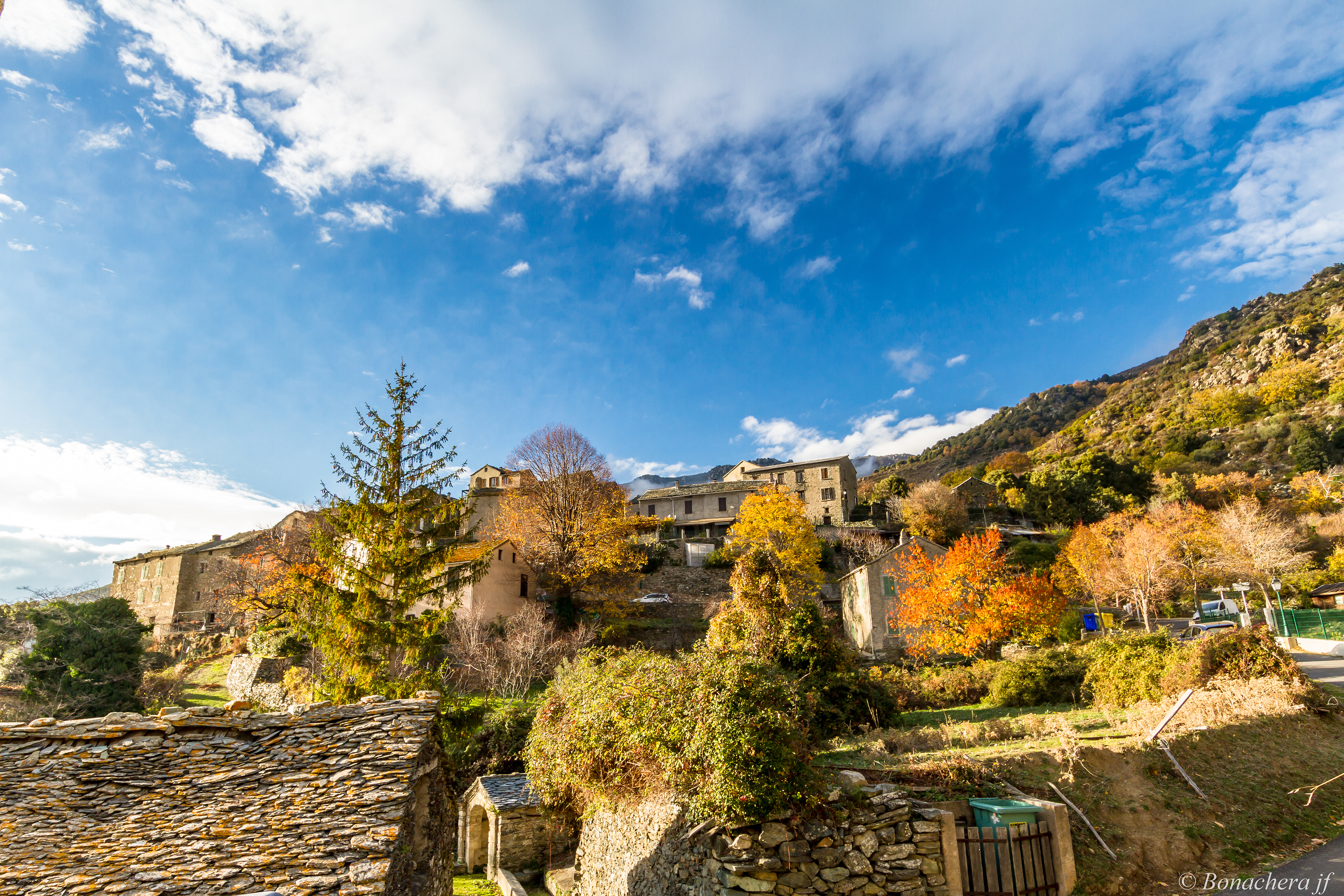 Scolca le haut du village